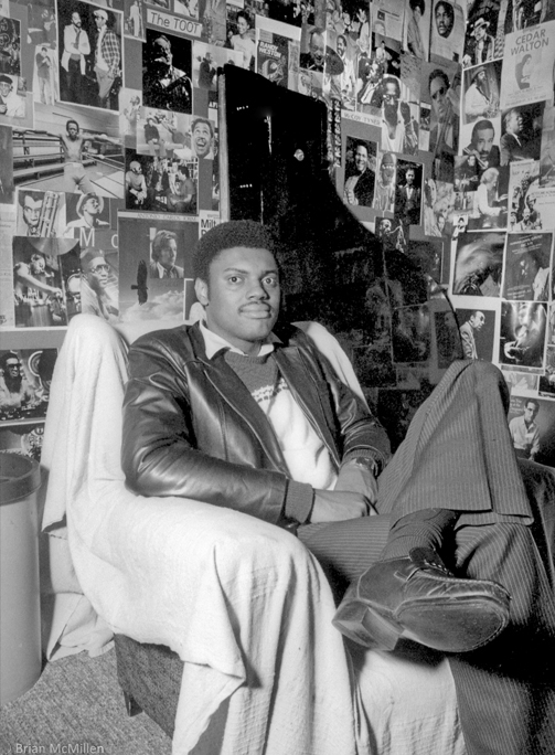 Mulgrew Miller at Keystone Korner, San Francisco CA 3/83, playing with Woody Shaw. Photo: Brian McMillen /